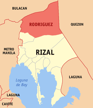 Locator map of Rodriguez in Rizal, Philippines.